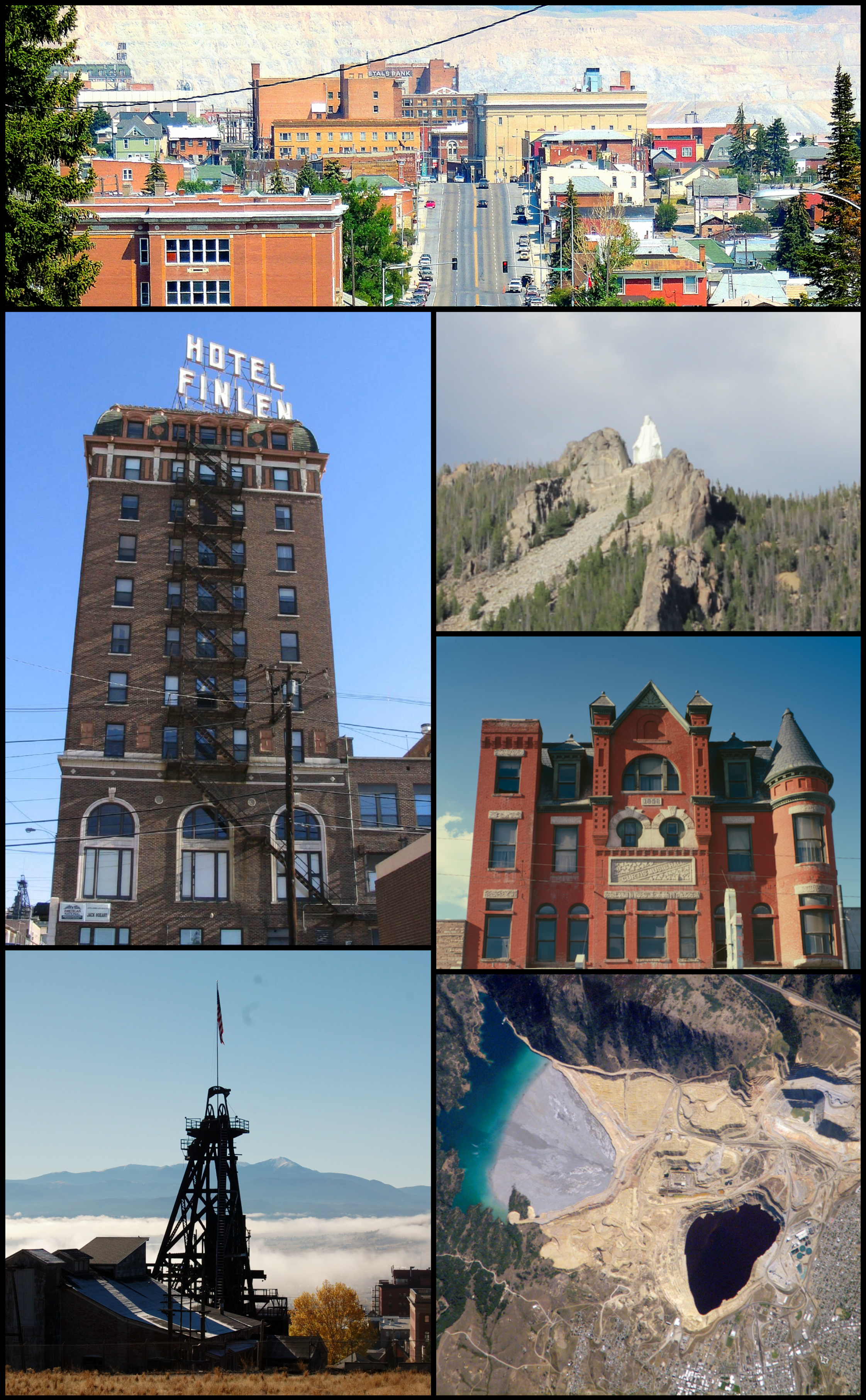 Collage of Butte, MT